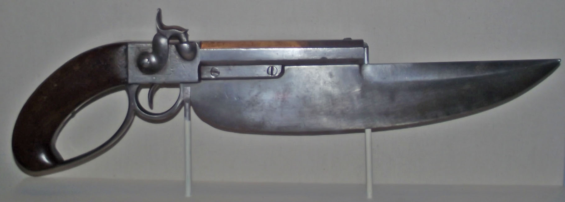 This is an Elgin Cutlass pistol made by C.B. Allen (1837) in the Collection at The Mariners' Museum